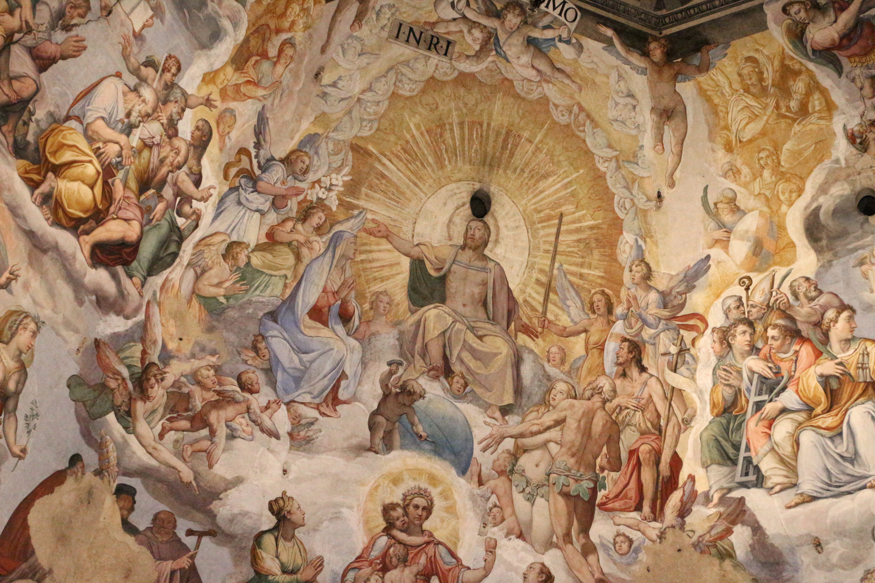 Santa Maria del Fiore (Florence) - Frescos inside the dome by Federico Zuccari